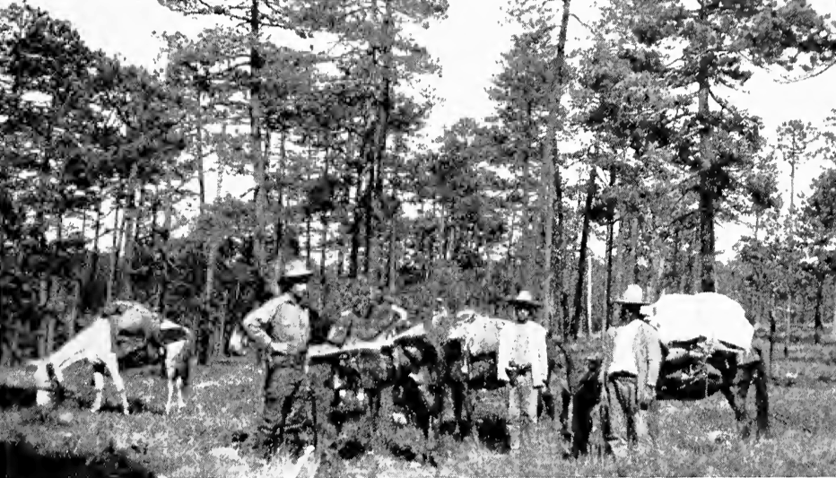 Elgin Bryce Holt crossing the Sierras in Chihuahua, the Madre Occidental mountain range - Holt is the figure on the left.